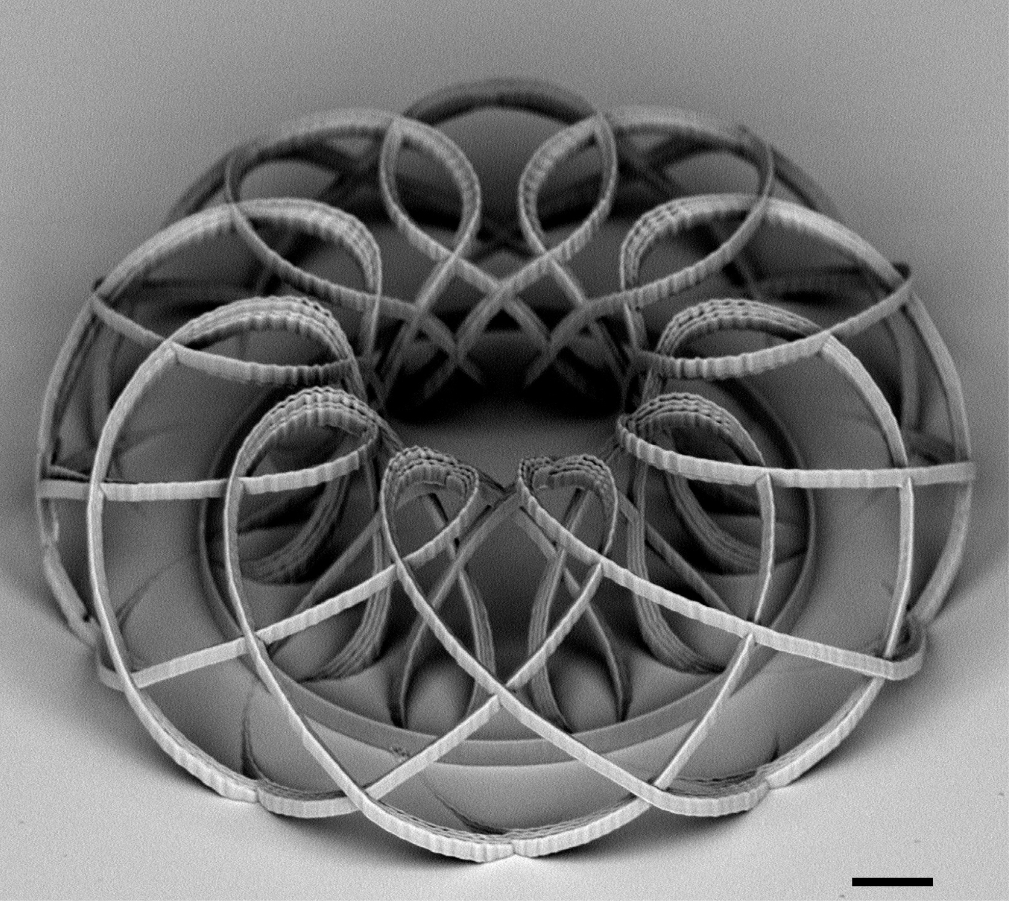 Two-Photon Polymerized toroid, 1030nm, SZ2080